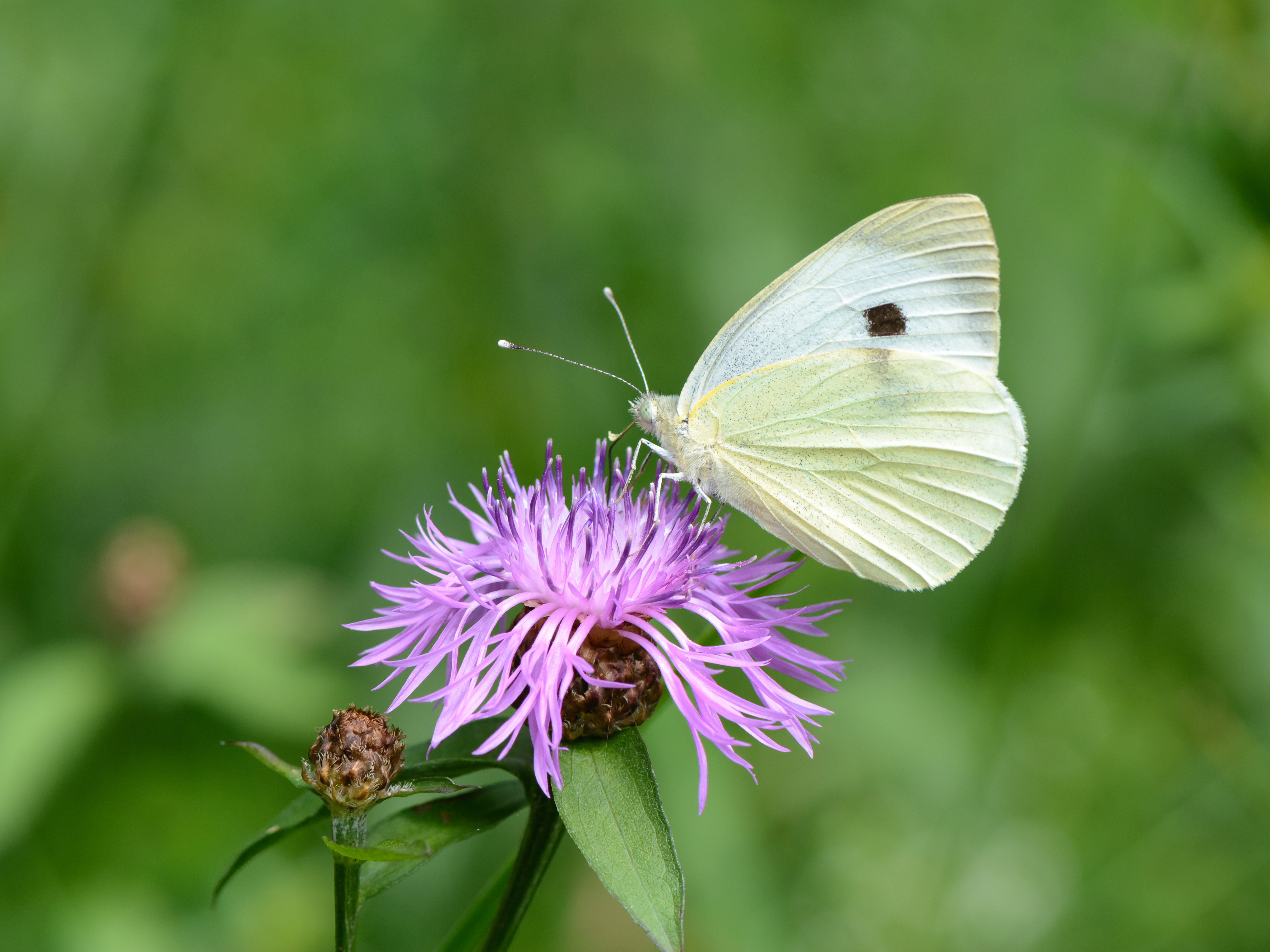 Large white (Pieris brassicae) on a brown knapweed (Centaurea jacea) flower near Mitterbach am Erlaufsee, Lower Austria